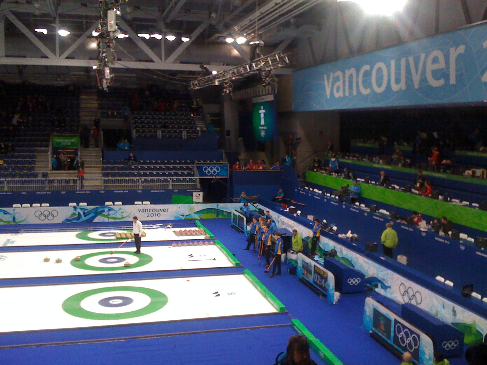 Warm up before men's bronze medal game SUI-SWE, 2010 Winter Olympics